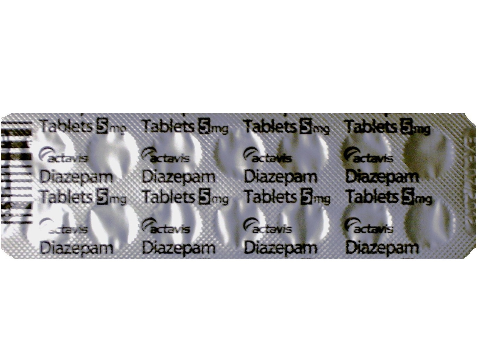 Blister pack of generic 5mg Diazepam tablets.